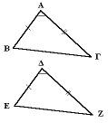 Determining congruence of triangles SAS comparison